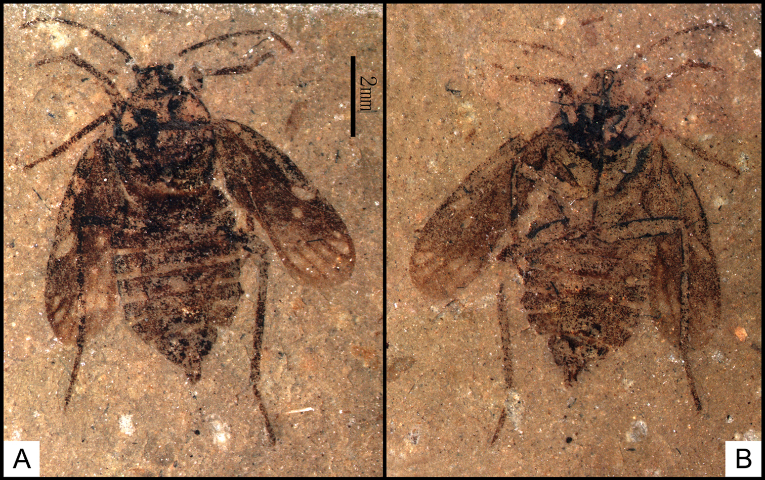 Cretaceous shore bug Brevrimatus pulchalifer (Heteroptera: Saldidae): A – part, B – counterpart.